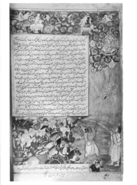 Ramayana